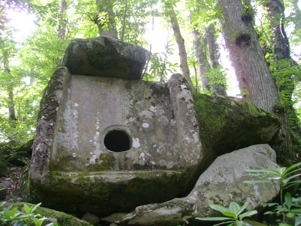 Dolmen near Solokhaul, Sochi, Russia